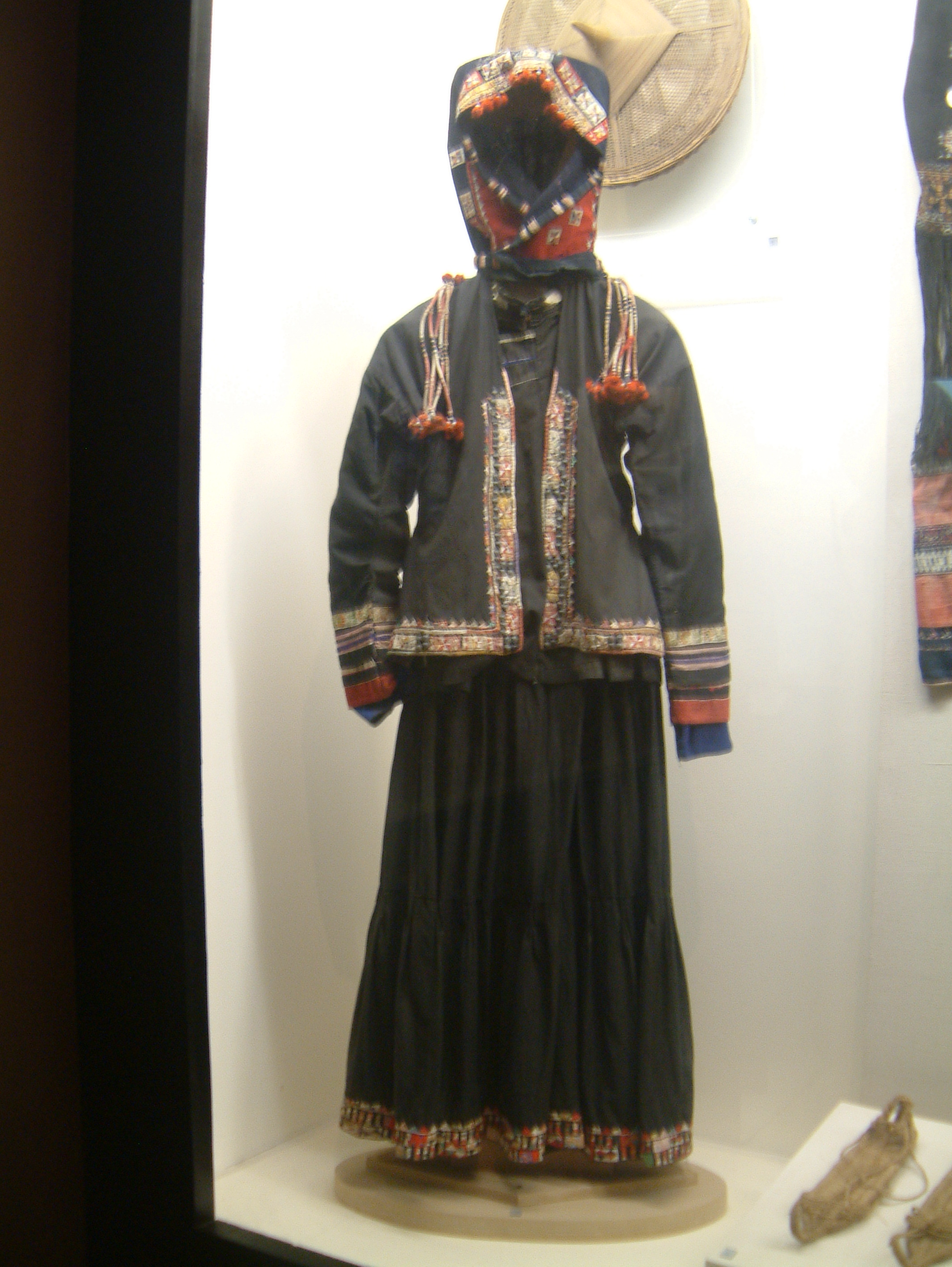 Traditional clothing of Qabiao people (Vietnam Museum of Ethnology)